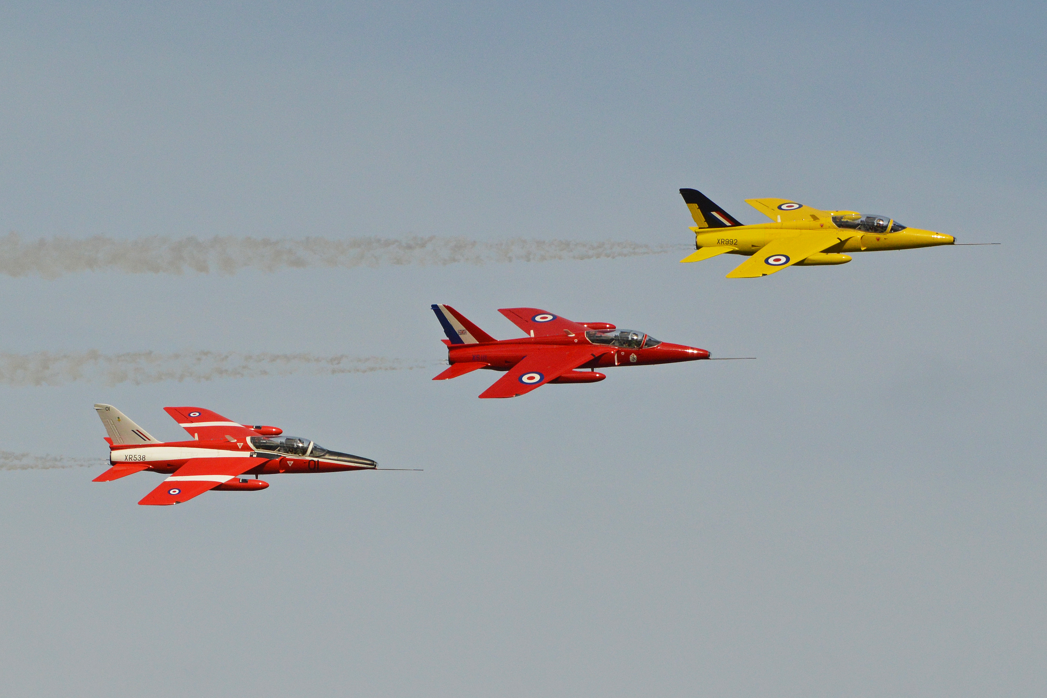 Three Hawker-Siddeley Gnat T1 trainers of the Gnat display team in a tight formation. Leading is 'XR992' in the colours of the Yellowjacks display team, the forerunners of the Red Arrows. It is actually XS102 (G-MOUR) c/n FL.596. In the centre is 'XS111' which is in Red Arrows colours. It is actually XP504 (G-TIMM) c/n FL519. Trailing is 'XR538 / 01' which is in the genuine markings of 4FTS as based at RAF Valley. It flies as G-RORI and is c/n FL.549. 2014 Waddington Airshow. RAF Waddington, Lincolnshire, UK. 05-7-2014